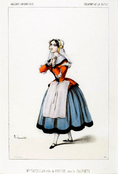 Operatic singer Anaïs Castel as Berthe in Meyerbeer's Le Prophète